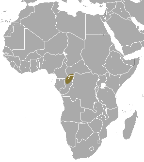 Lesser Congo Shrew (Congosorex verheyeni) range